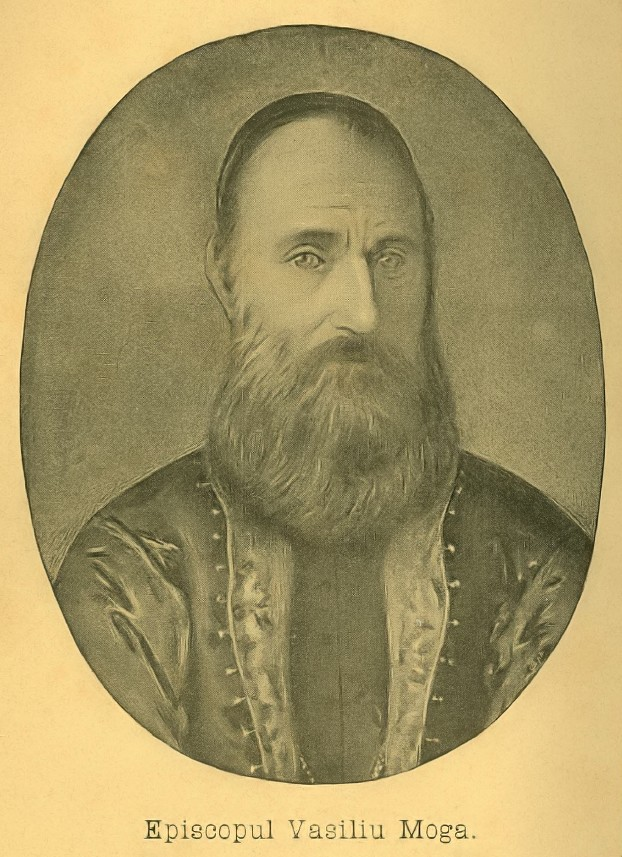 A very old portrait of romanian bishop Vasile Moga (1774-1845) Portretul a fost donat mitropolitului Miron Romanul de Ioan Paraschiv, subjude regesc în Sas-Sebeș.